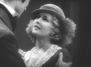 Cropped screenshot of Joan Bennett from the trailer for the film Disraeli